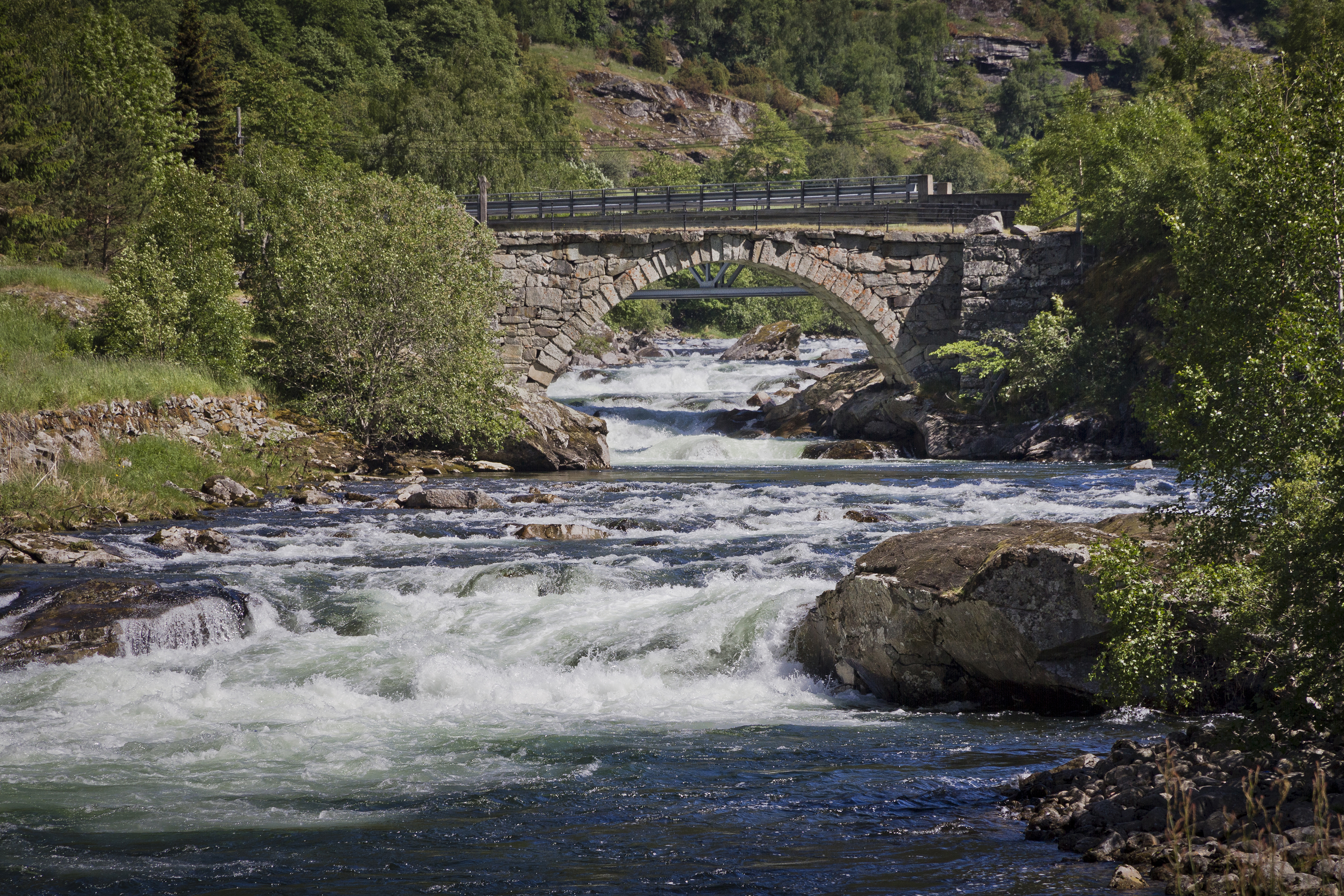 A stone arch bridge crossing Lærdalselvi river in Lærdalen, Lærdal municipality, Sogn og Fjordane, Norway in 2013 June.